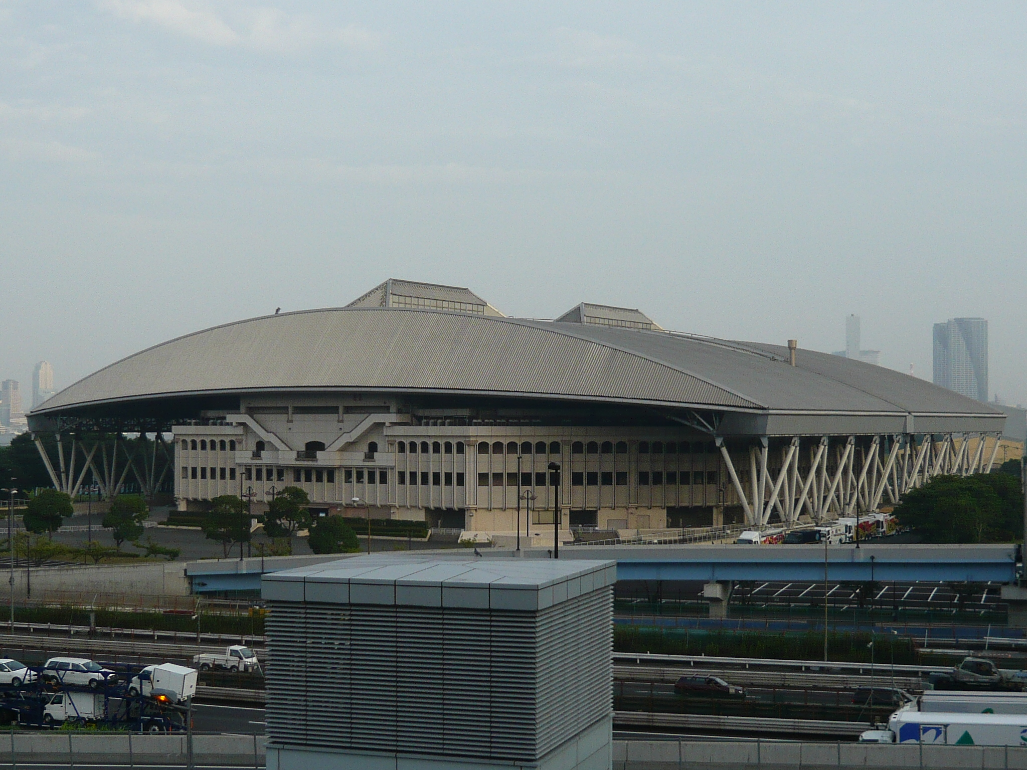 Ariake Colosseum (有明コロシアム) in Koto-ku, Tokyo, Japan.